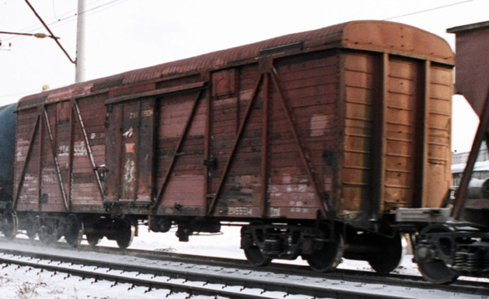 Covered wagon on Russian railways